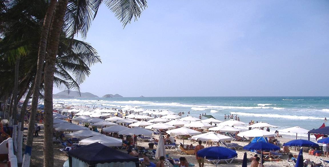 Playa El Agua Beach, Isla Margarita